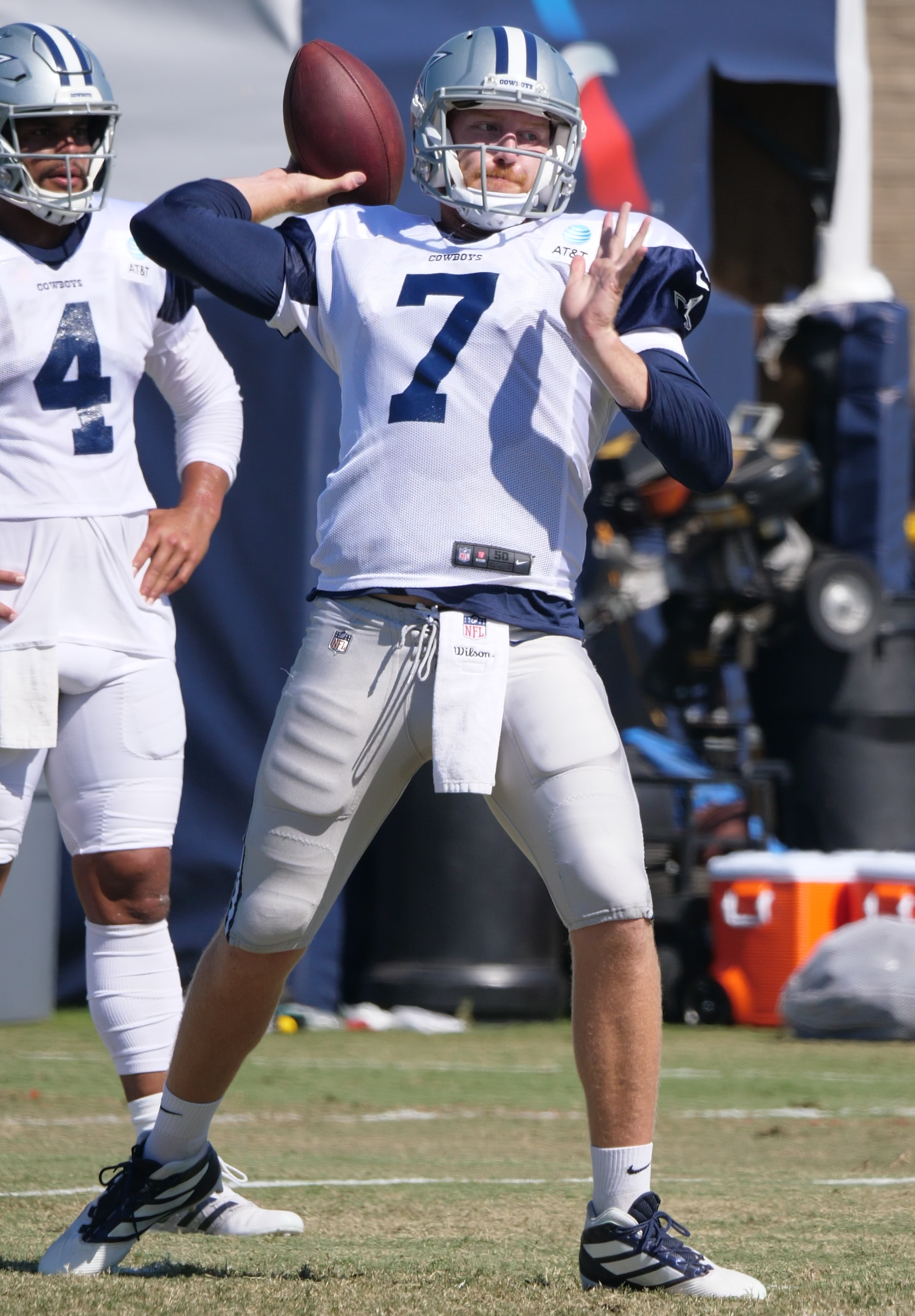 Cooper Rush throws a pass during training camp for the Dallas Cowboys while Dak Prescott looks on at River Ridge Playing Fields in Oxnard, California in summer 2019.